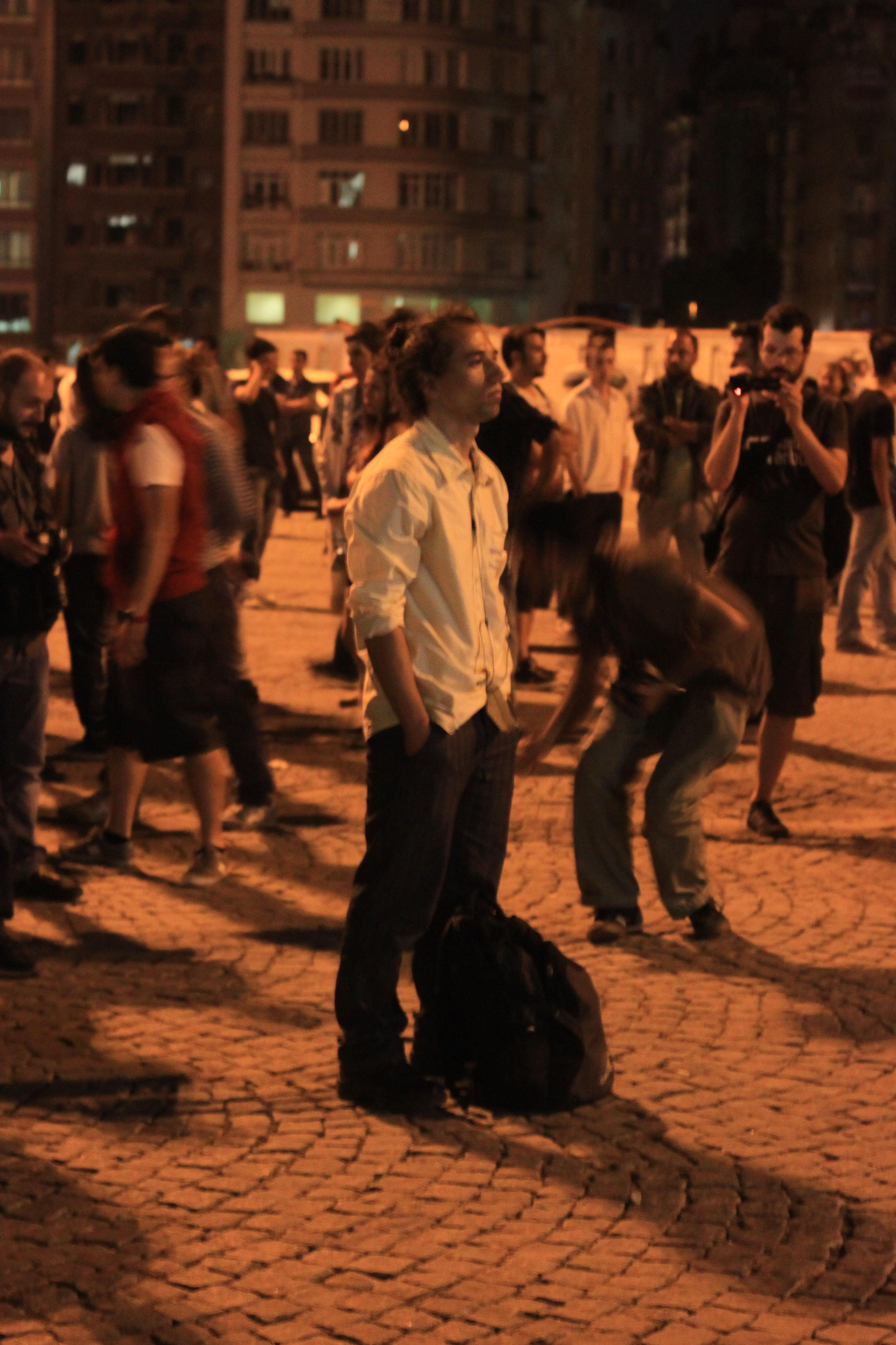 Erdem Gunduz during the Standing Man protest Image taken by John Lubbock in Istanbul during the Gezi Park protests, 2013